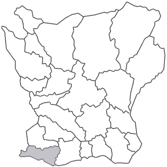 Map describing the location of Skytt Hundred in the province of Skåne, Sweden.